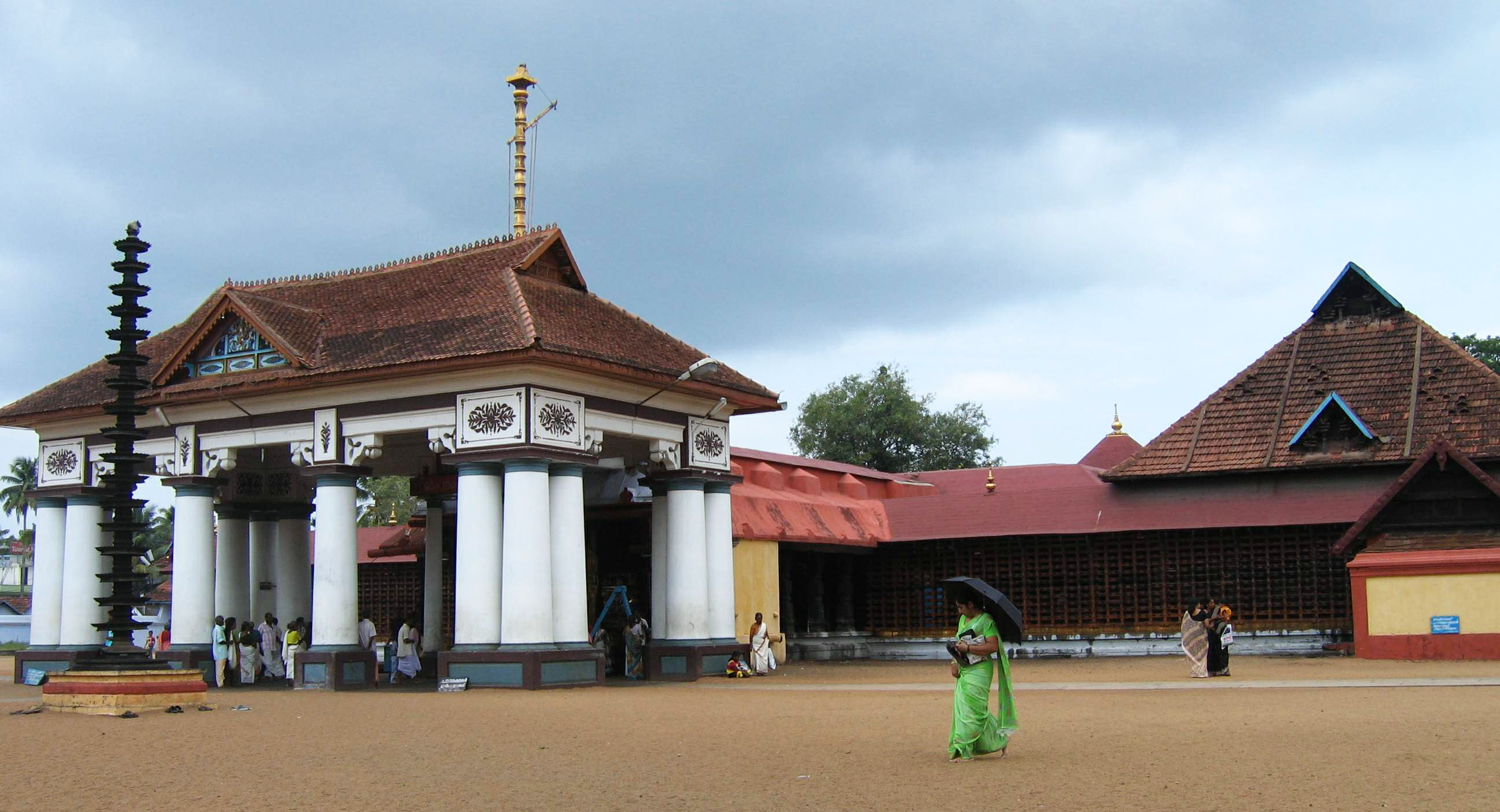 Vaikkom Mahadeva Temple വൈക്കം മഹാദേവ ക്ഷേത്രം